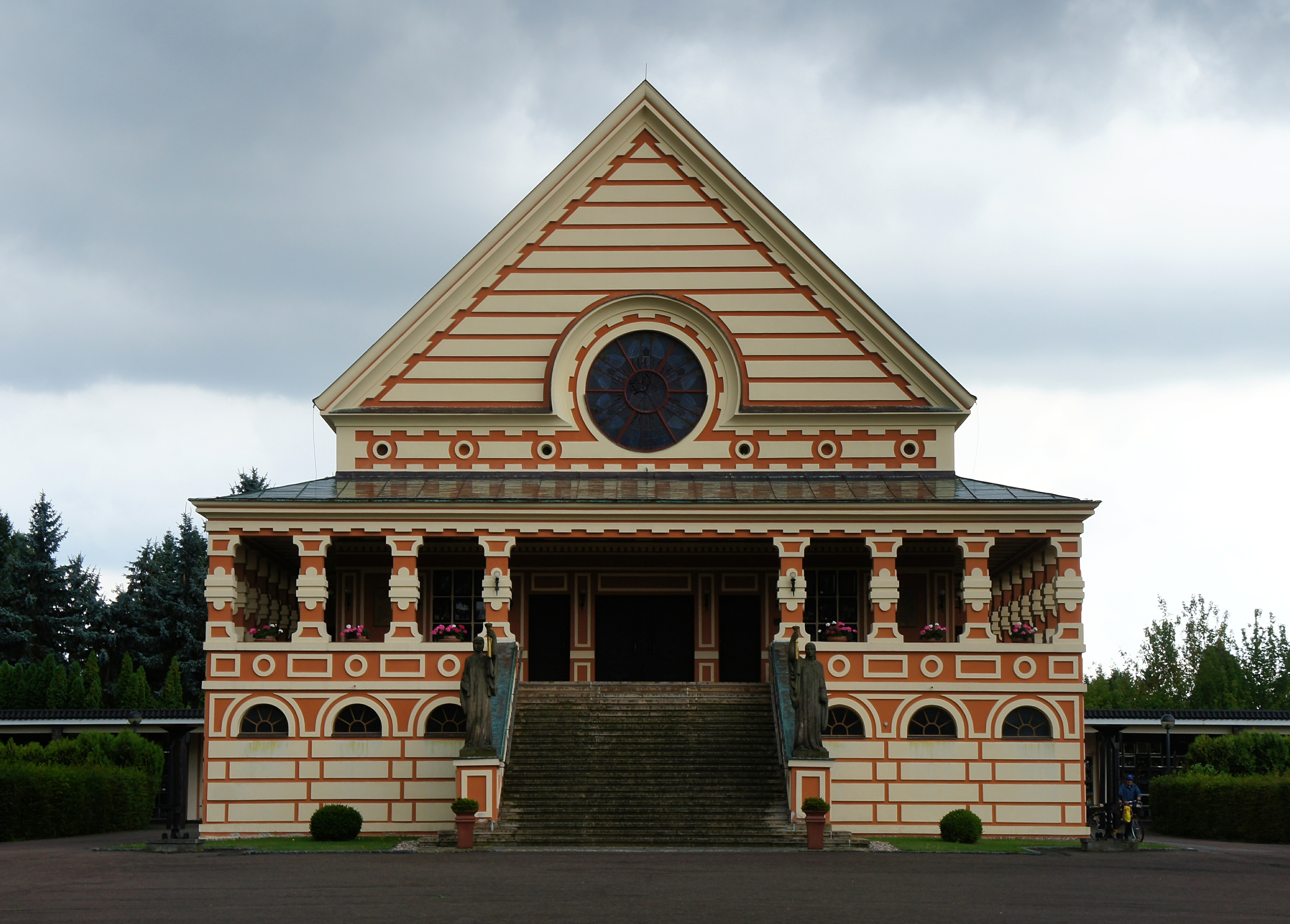 The Pardubice crematorium (Pardubický kraj, Czechia).